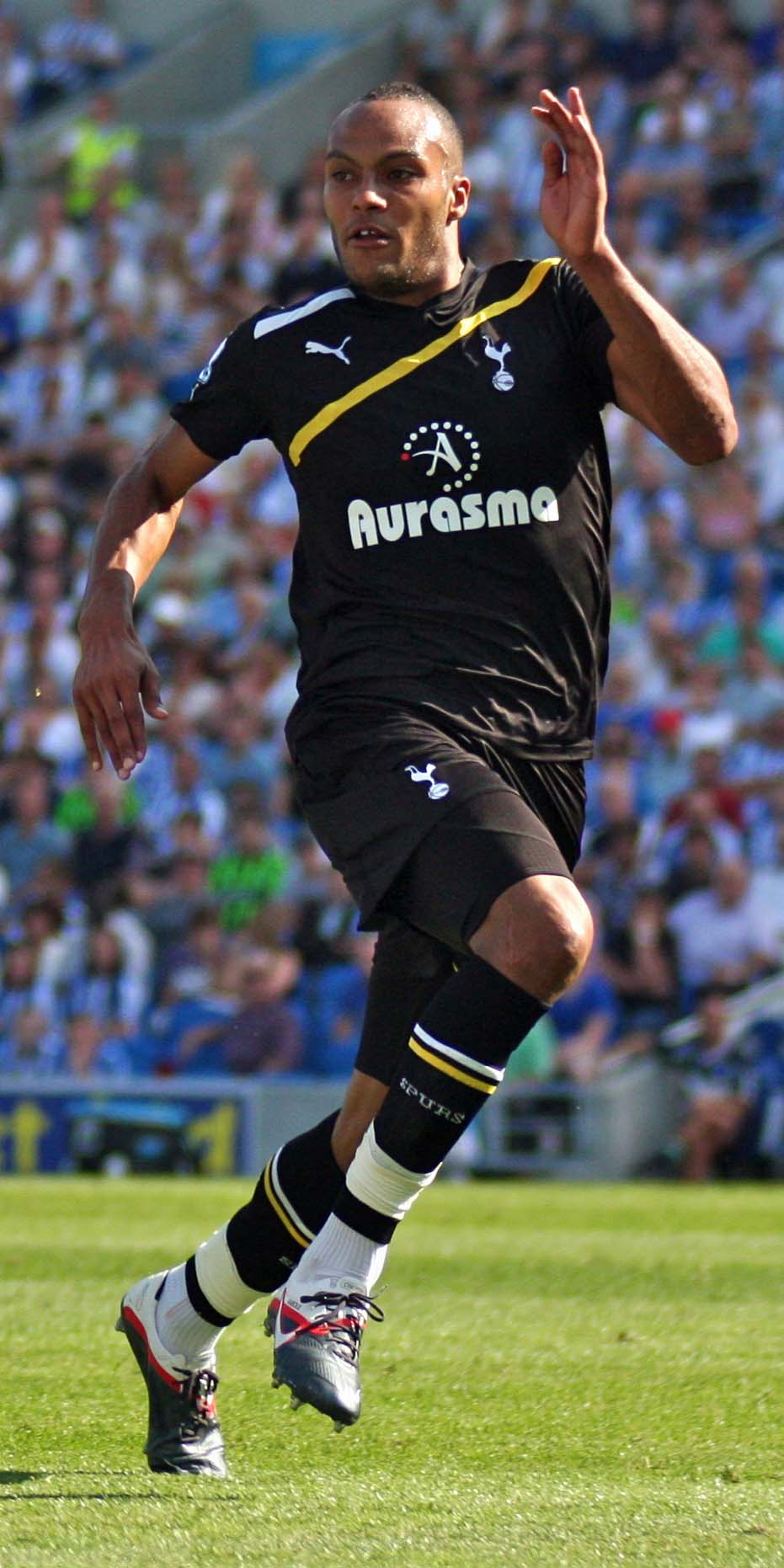 Younes Kaboul of Tottenham, playing against Brighton